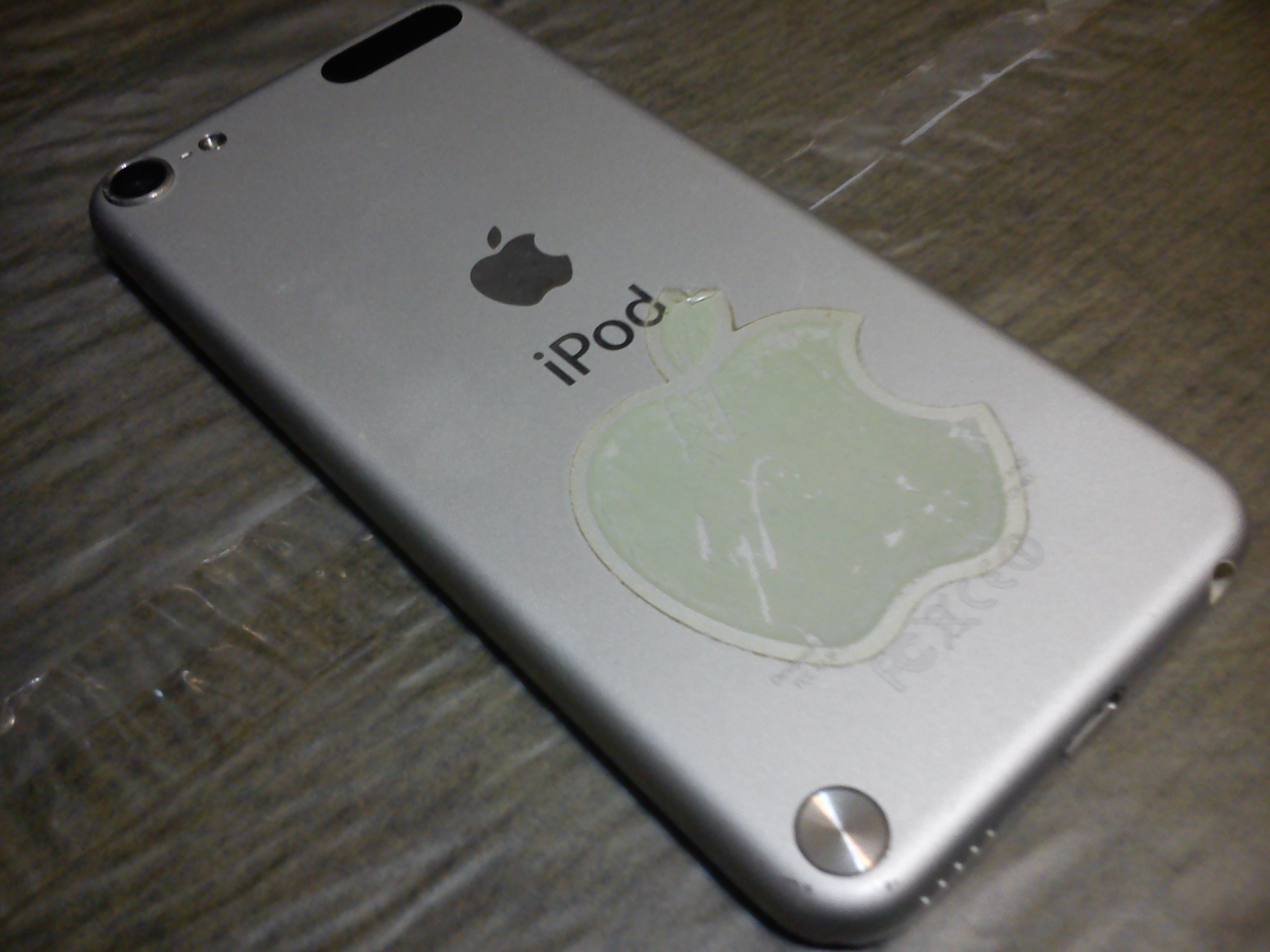 iPod touch 3 face2